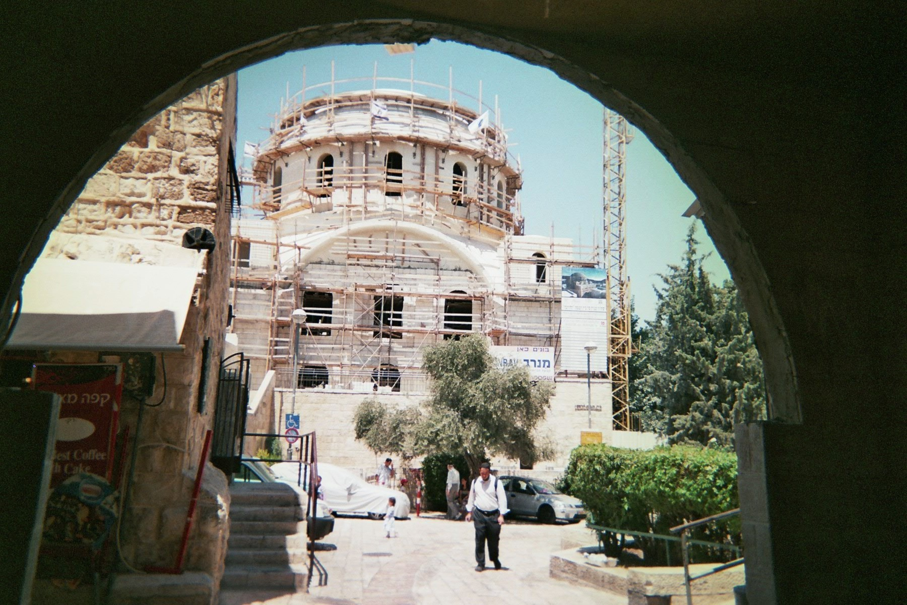 Hurva synagogue in Jerusalem - august 2008